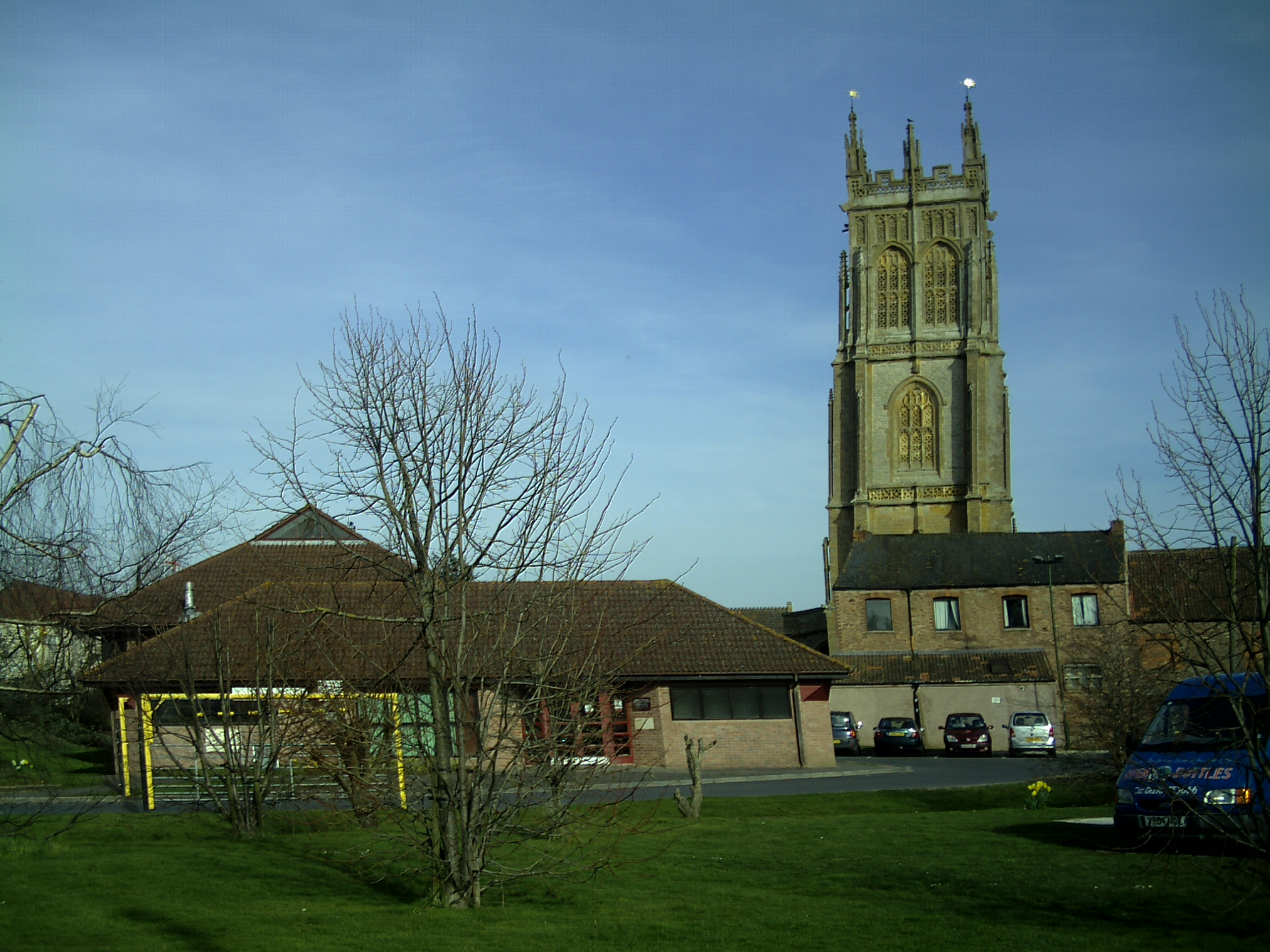 North Petherton - centre, church of St Mary